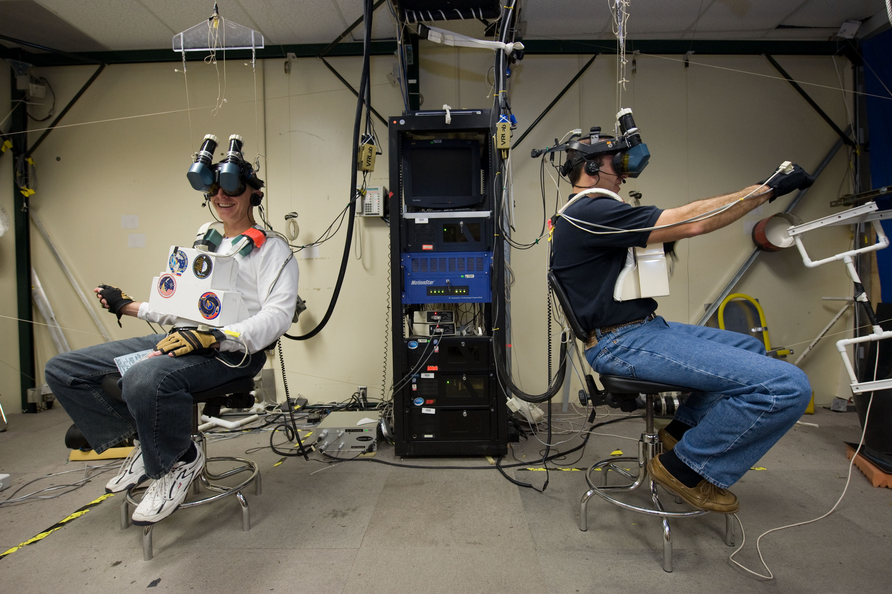 NASA astronauts Clayton Anderson (left) and Rick Mastracchio, both STS-131 mission specialists, use virtual reality hardware in the Space Vehicle Mock-up Facility at NASA's Johnson Space Center to rehearse some of their duties on the upcoming mission to the International Space Station. This type of virtual reality training allows the astronauts to wear a helmet and special gloves while looking at computer displays simulating actual movements around the various locations on the station hardware with which they will be working.